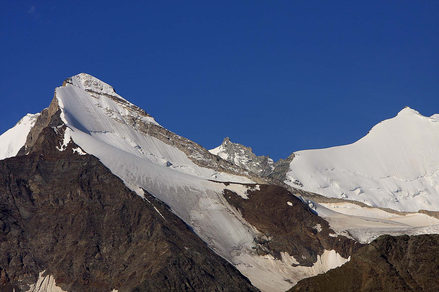 Brunegghorn and Bishorn from NE